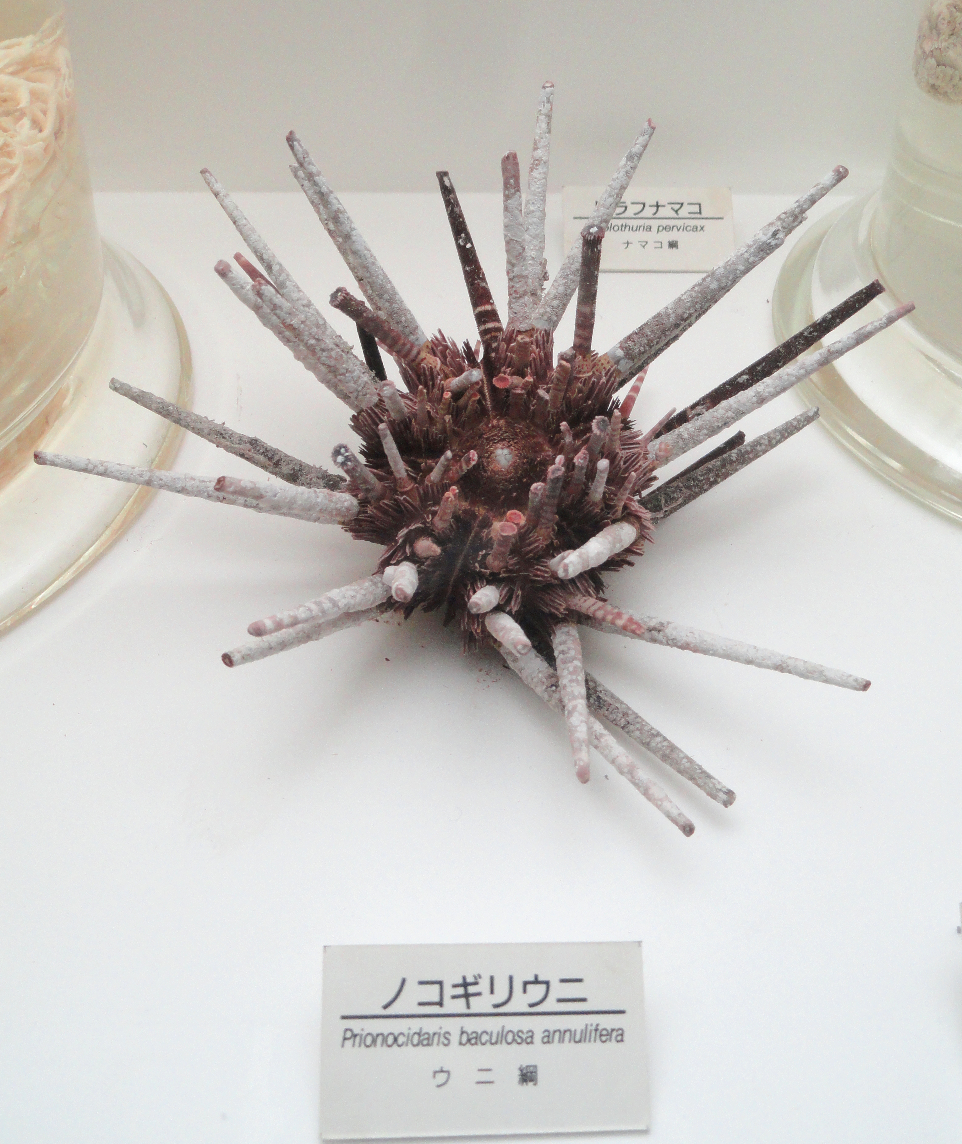 Exhibit in the Osaka Museum of Natural History, Osaka, Japan.